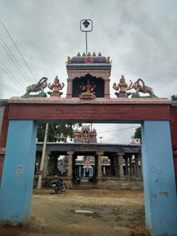 Entrance Arch, Mahalakshmi Temple, Mettu Mahathanapuram, Krishnarayapuram Taluk, Karur District, Tamil Nadu, India